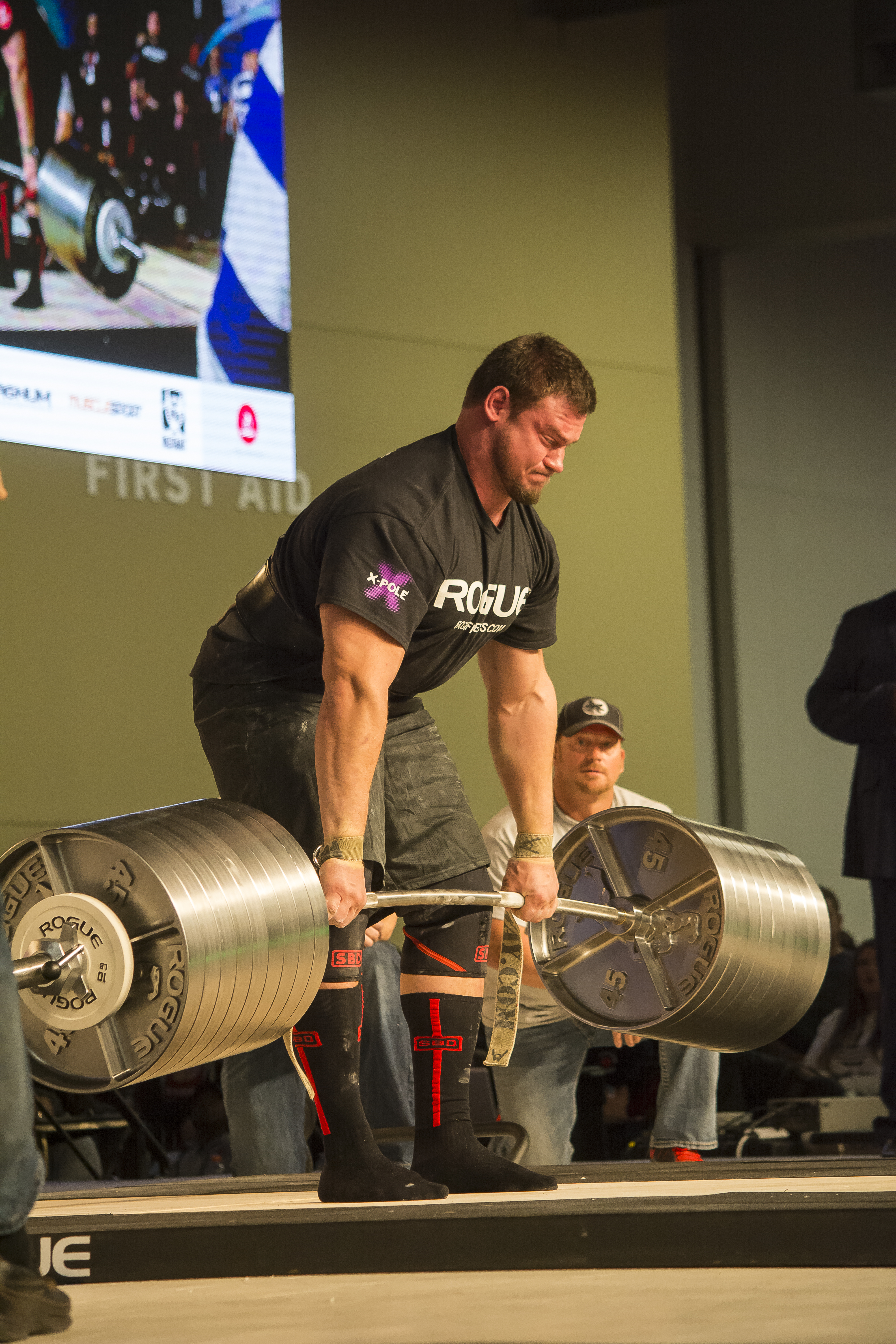 Arnold Classic Coulumbus, Ohio USA 2017